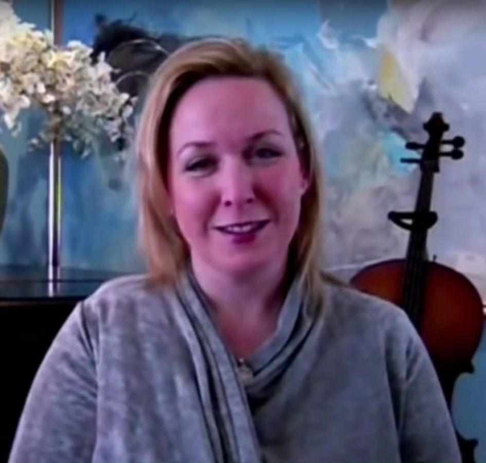 American political writer Shannyn Moore, Host of The Shannyn Moore Show, joins The Big Picture with Thom Hartmann.